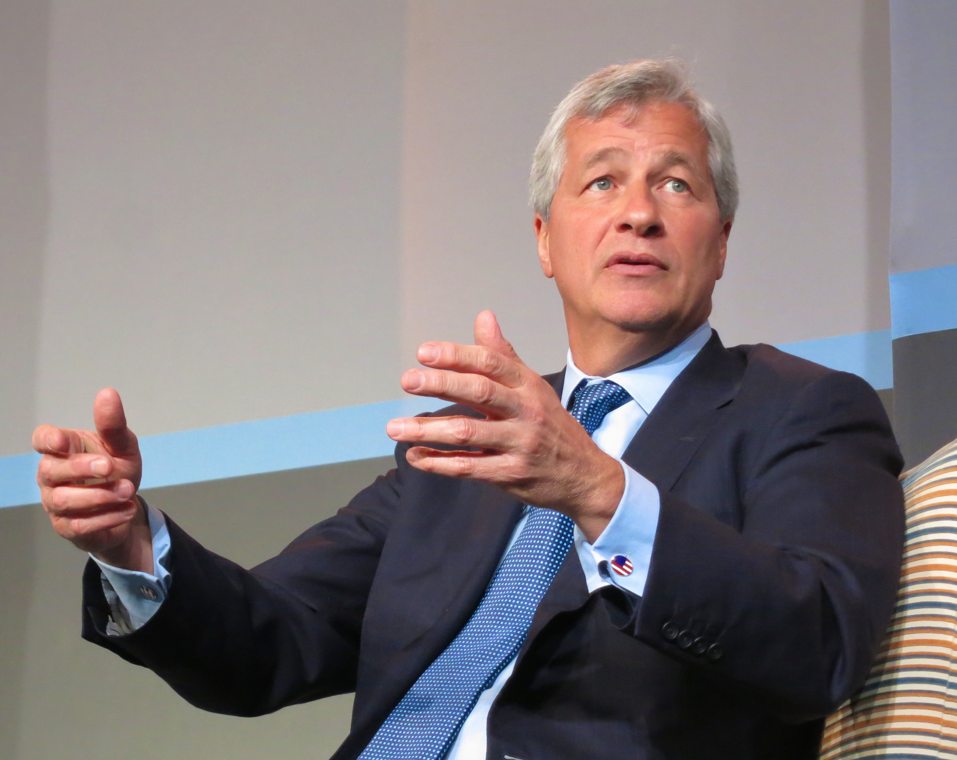 Jamie Dimon at the JPMorgan Healthcare Investment Conference.